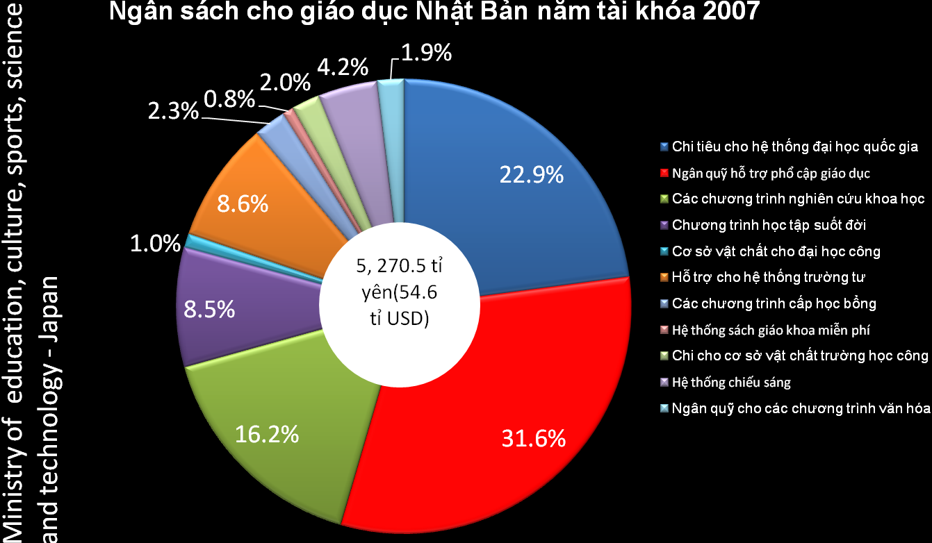 Pie chart describes expenditure of Japan education in fiscal year 2007. Raw information taken from